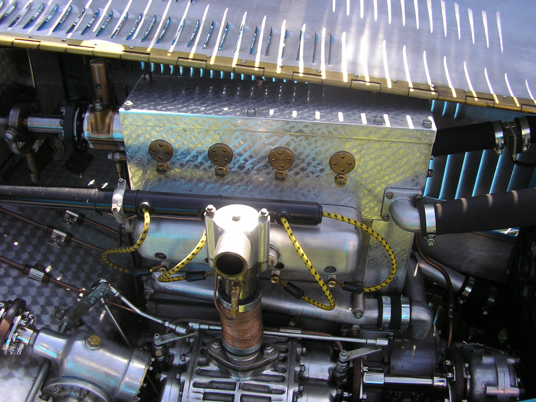 The engine bay of a 1929 Bugatti T 37 A.